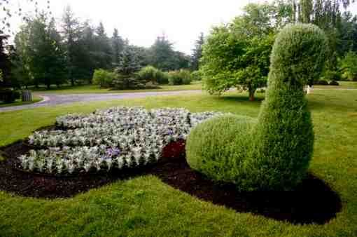 The Peafowl, mosaiculture. New-Brunswick Botanical Garden